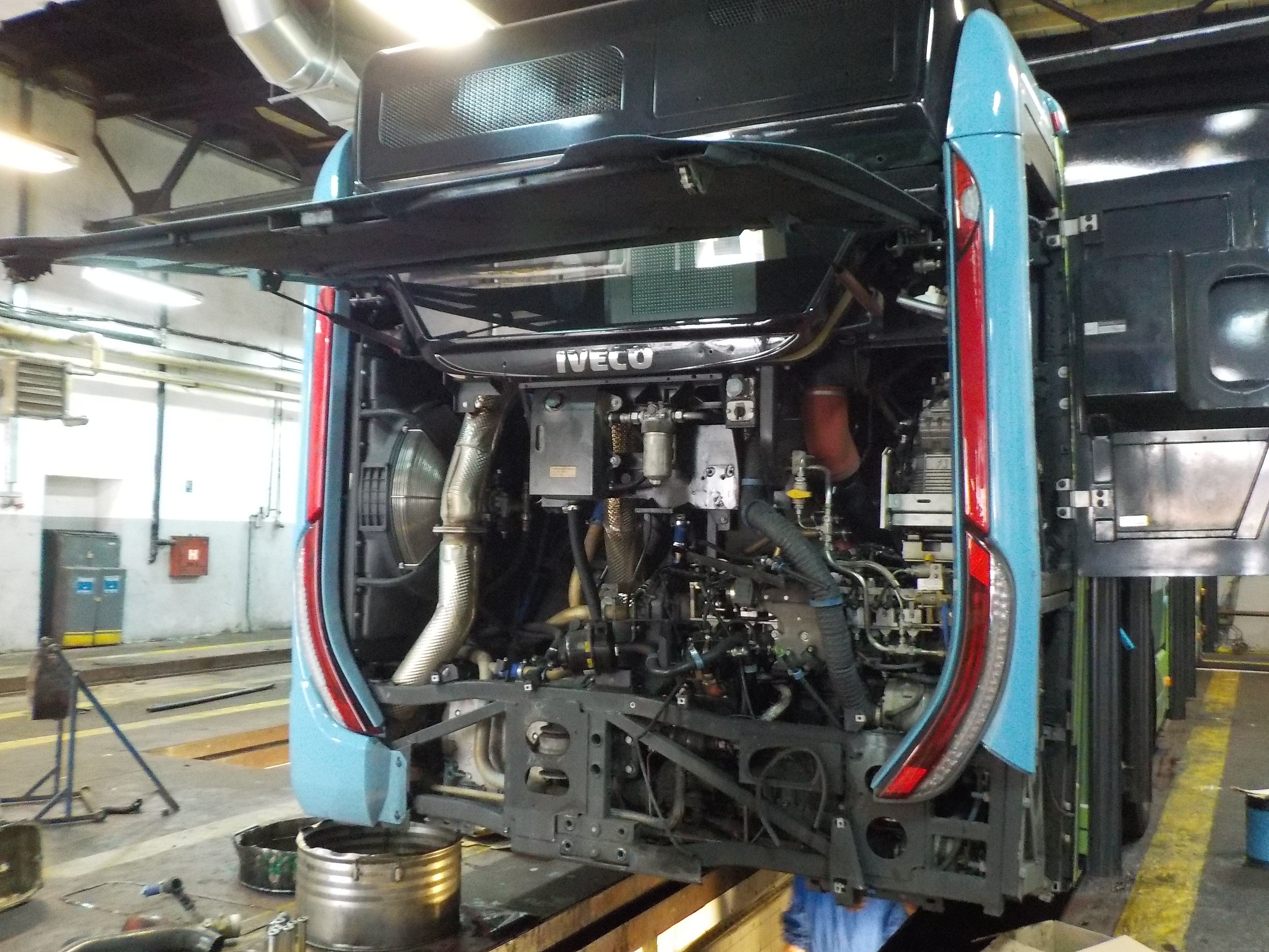 Motor on the Iveco Urbanway CNG bus in Rijeka.